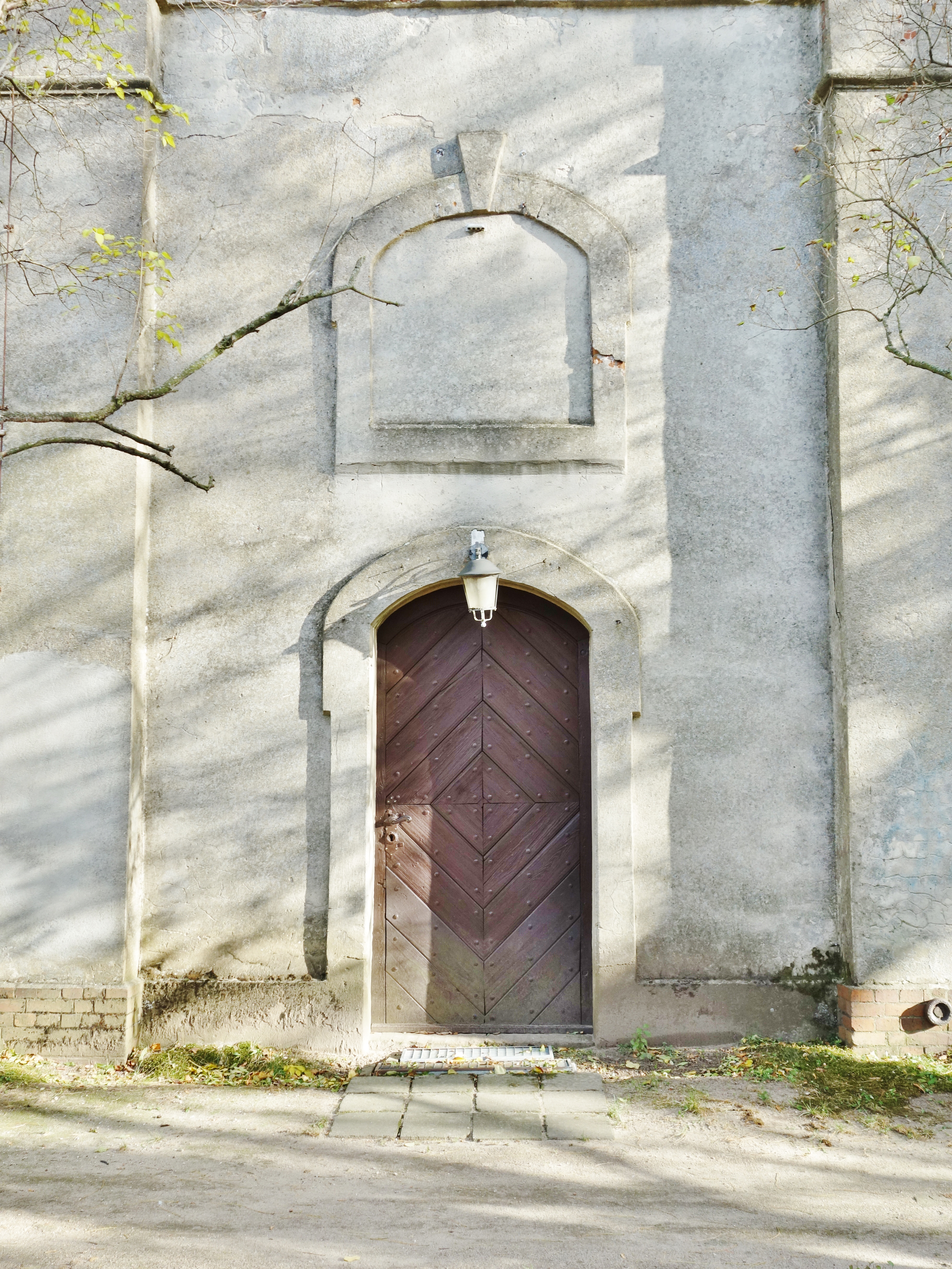 Western portal of the church in Pfaffendorf , Rietz-Neuendorf municipality , Oder-Spree district, Brandenburg state, Germany